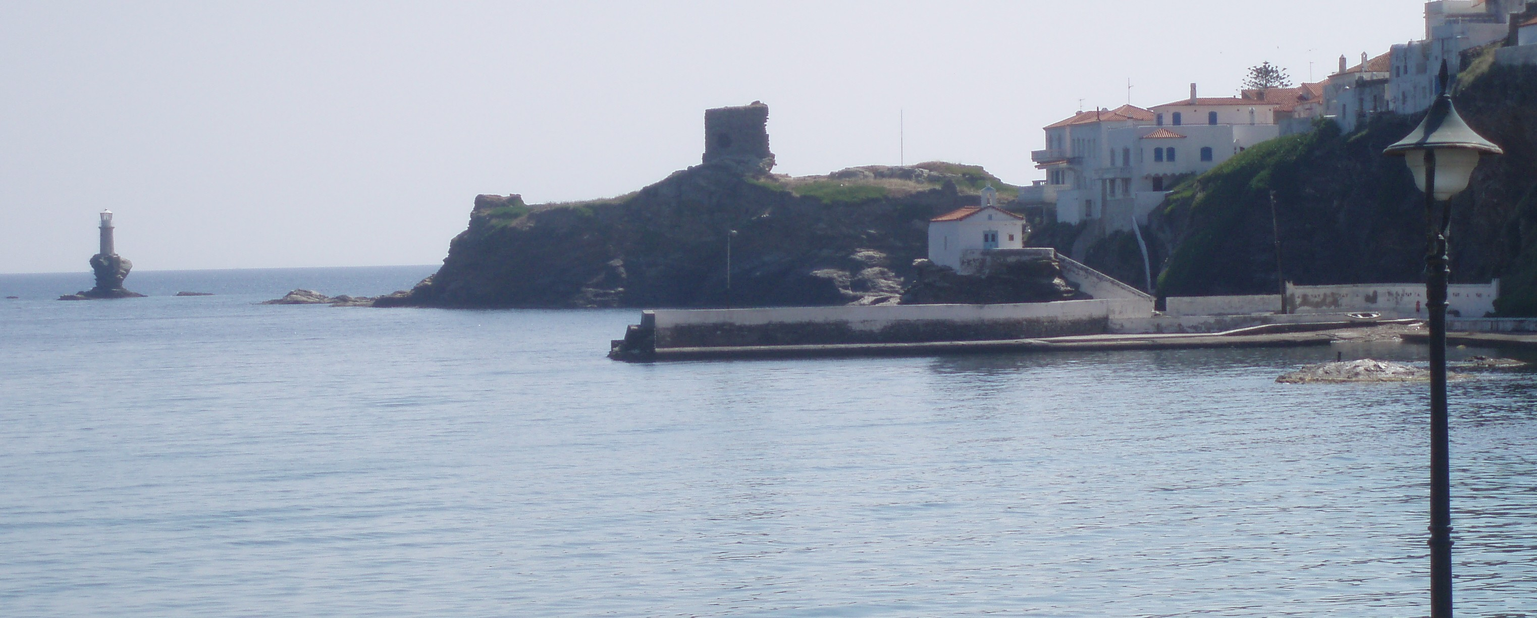 Ruins of venetian castle in Andros Town (Mesa Kastro), Greece, Cyclades